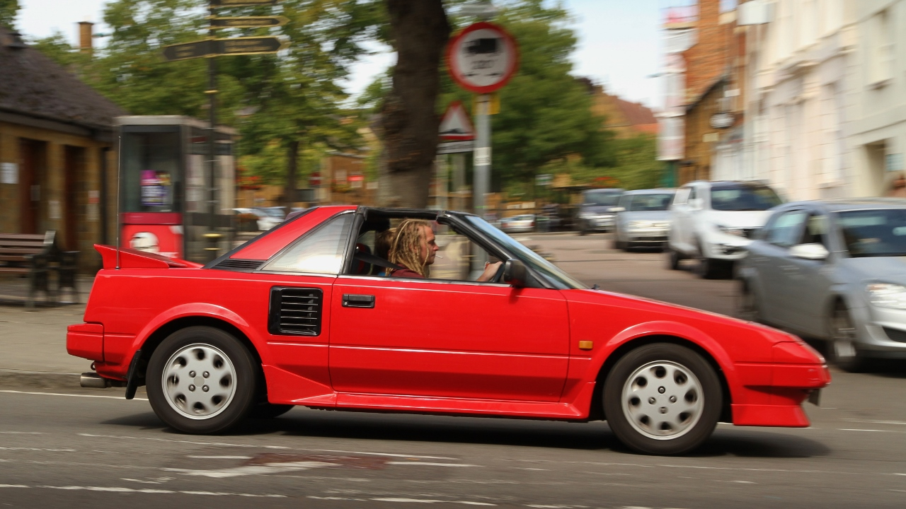 1987 or '88 W10-series Toyota MR2 in High Street, Banbury, Oxfordshire, England